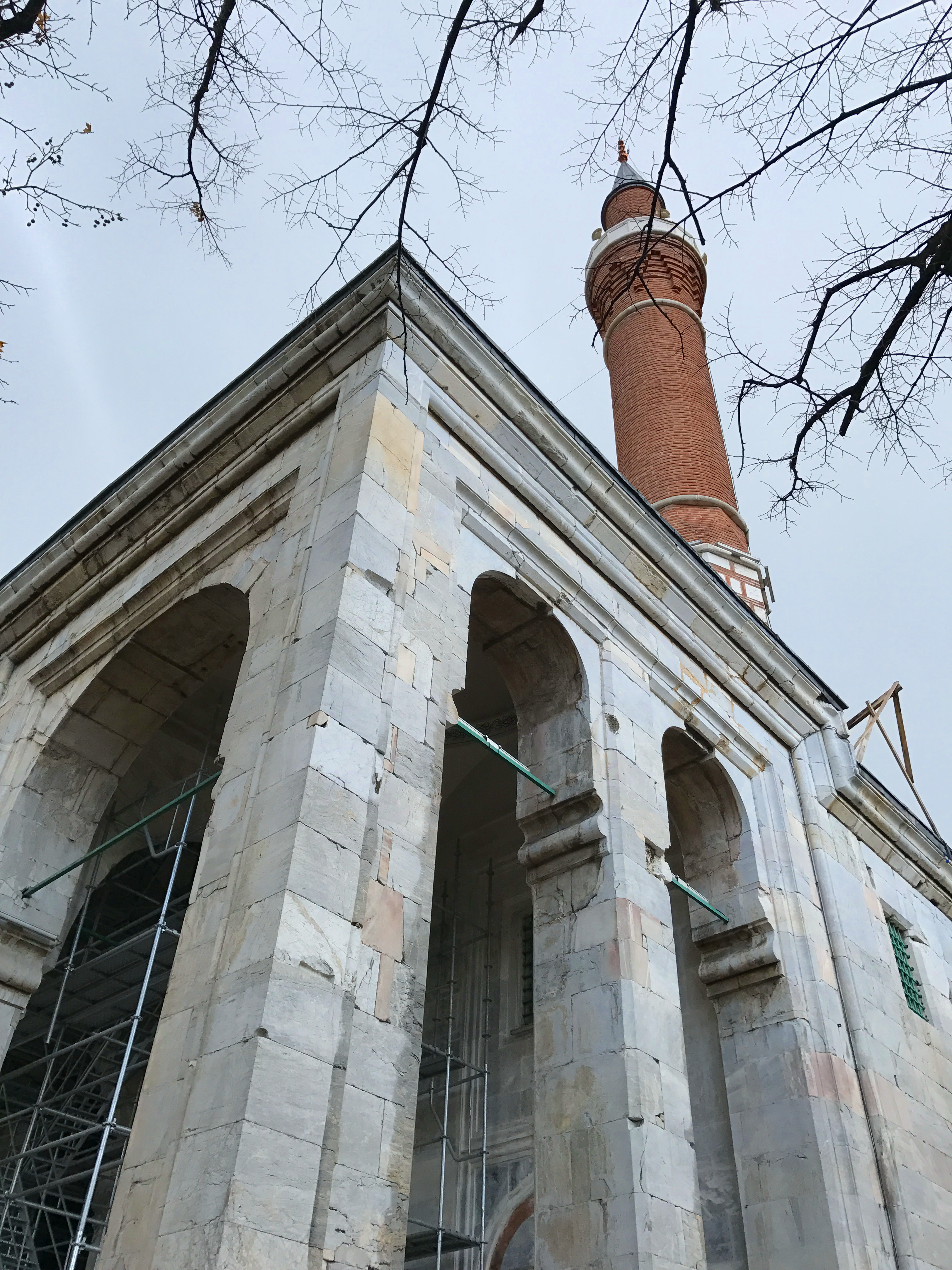 Bayezid I Mosque is a historic mosque in Bursa, Turkey, that is part of the large complex (külliye) built by the Ottoman Sultan Bayezid I (Yıldırım Bayezid – Bayezid the Thunderbolt) between 1391–1395. This picture was taken during 2017's renovations.